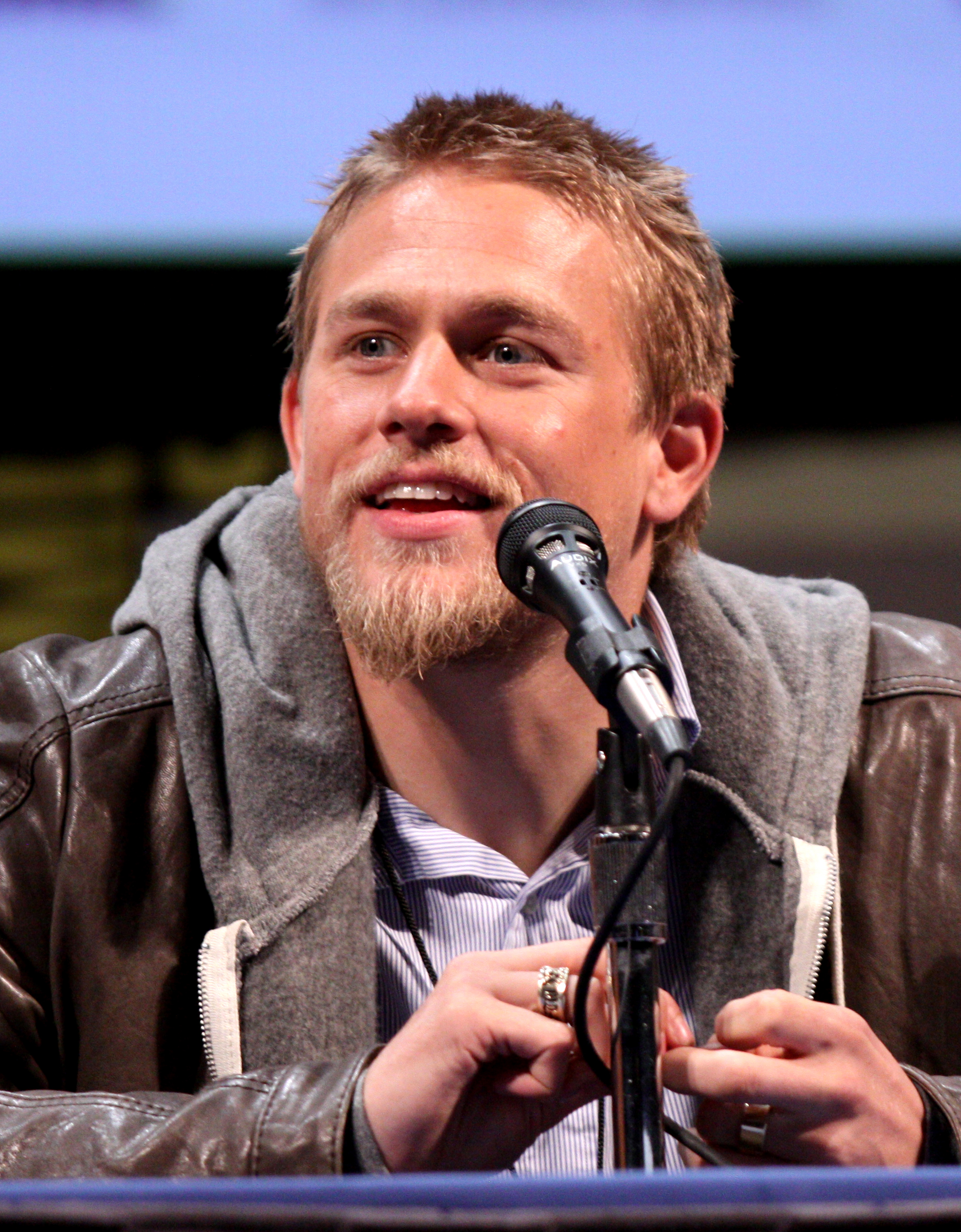 Charlie Hunnam at the 2011 Comic Con in San Diego